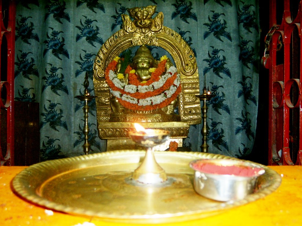 Golden Ganesha statue with flowers, a lit lamp and a dish of ochre powder. Original caption: Ganesha is found in many temples, including those dedicated to other deities. In front of most statues is a burning lamp and the small dish of red ochre.